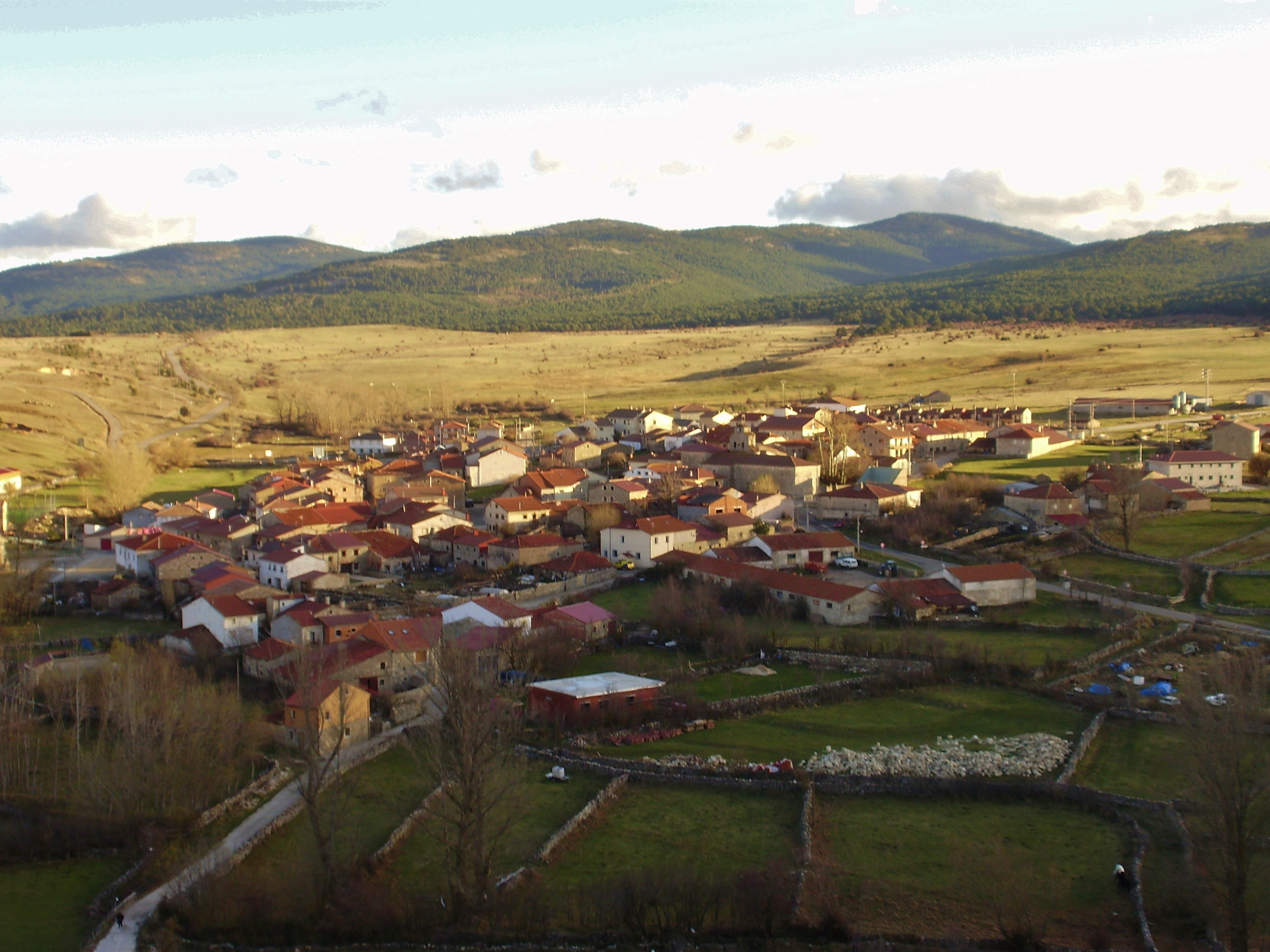 View of Galve de Sorbe (Castile-La Mancha, Spain as seen from the castle hill. Aragonés: Anvista de Galve de Sorbe.